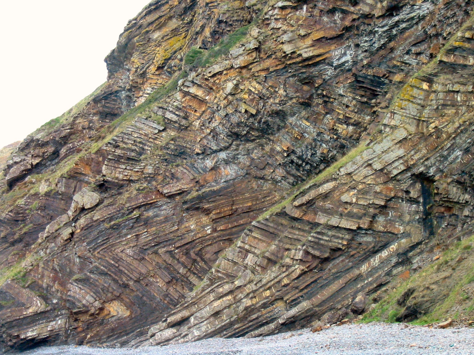 The contorted strata in the cliffs at Millook, North Cornwall.